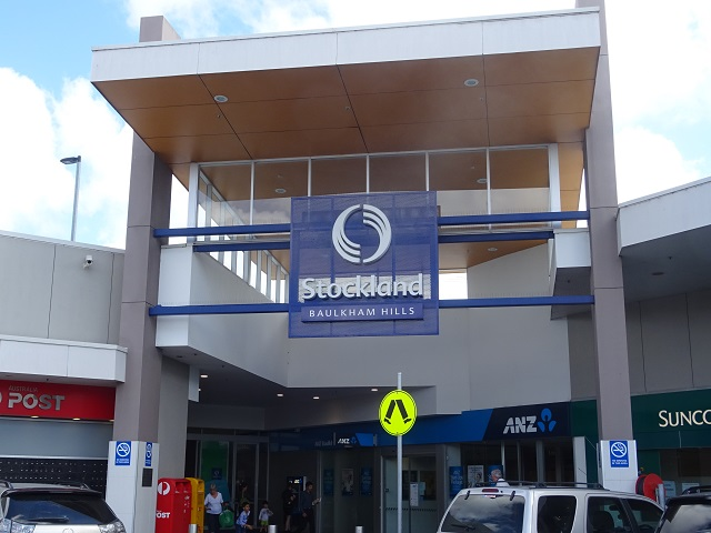 Stockland shopping centre in Baulkham Hills